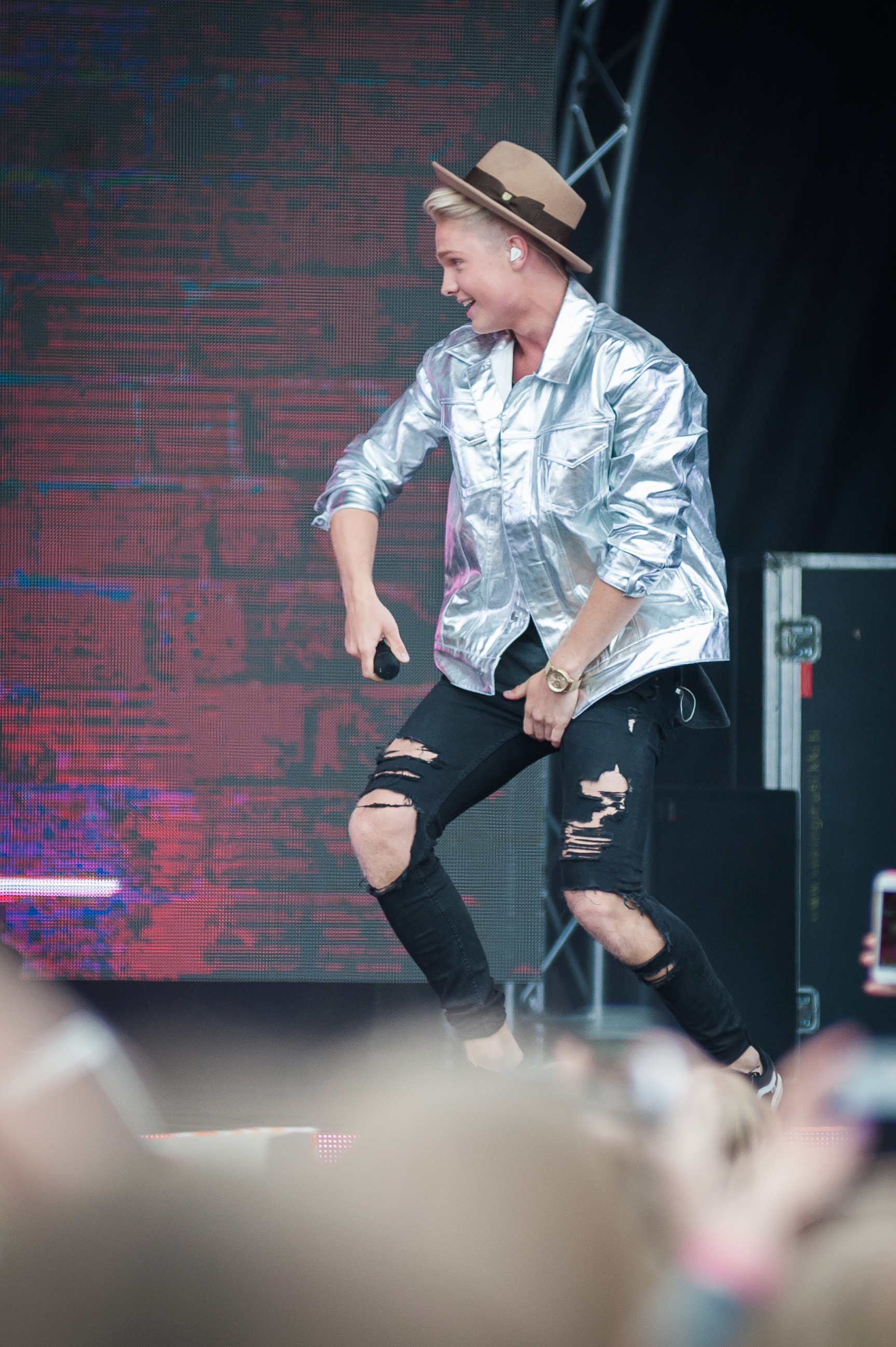 Finnish vocalist Benjamin Peltonen performing at YleXPop event in Lahti, Finland on the 4th of June, 2016.